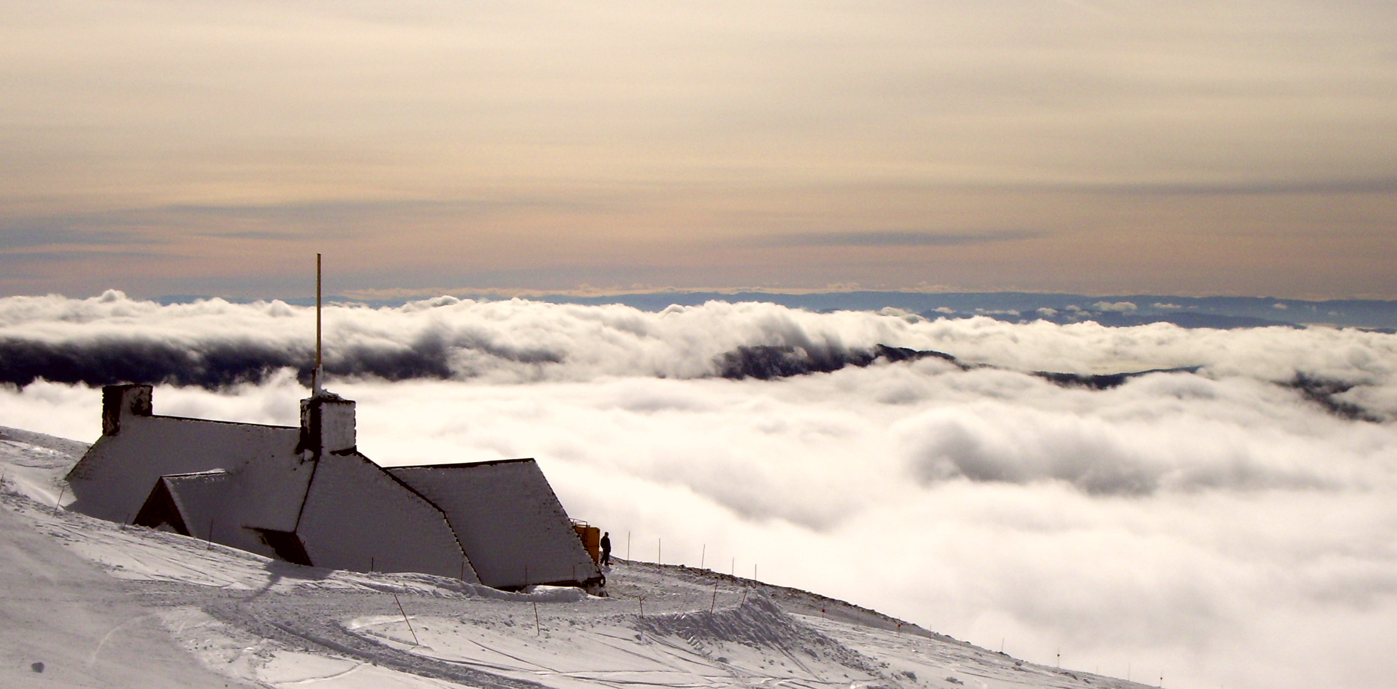 Vista of Silcox Hut and central Oregon under clouds